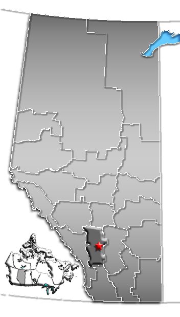 Location of Calgary, Census Division No. 6, Albera